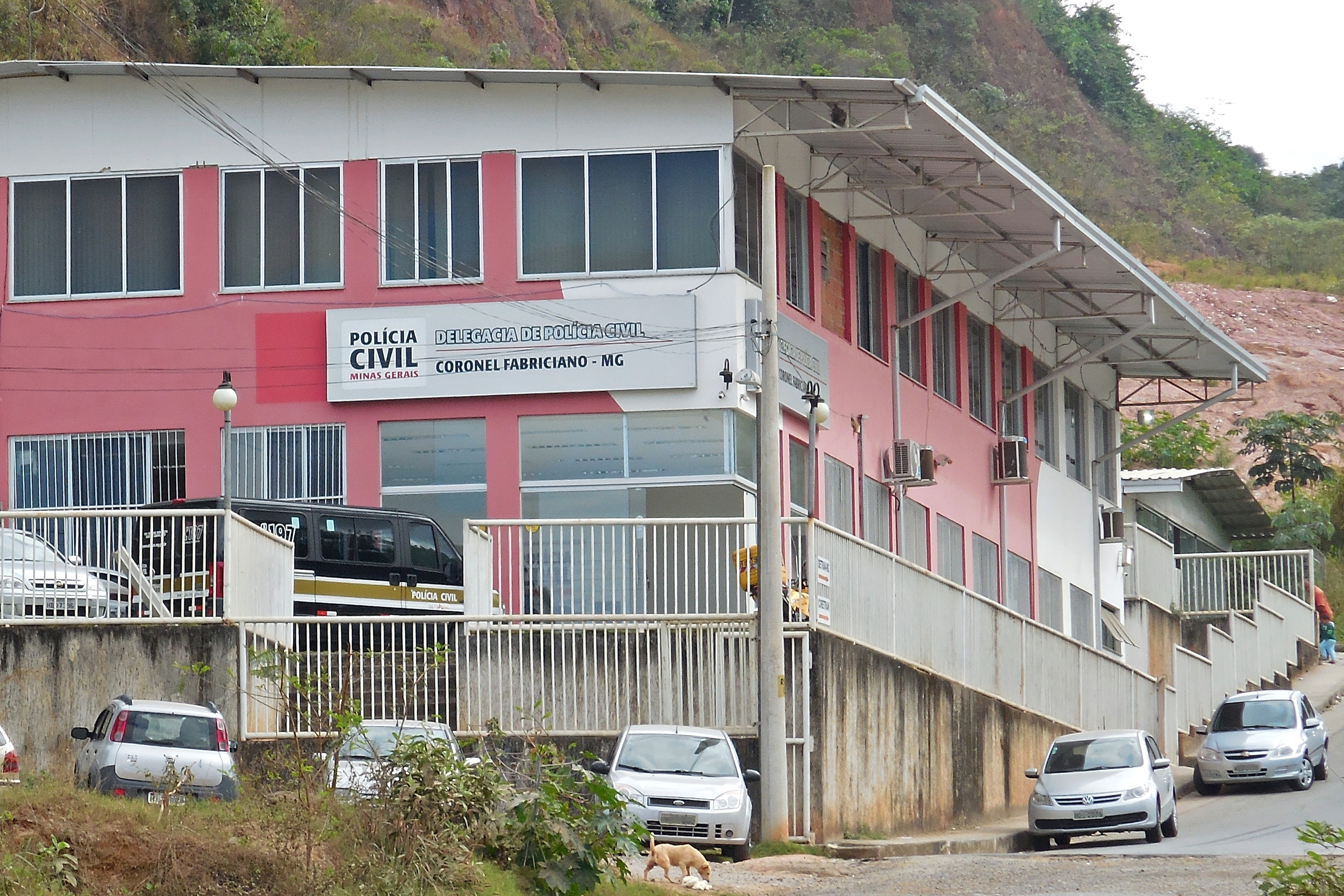 Partial view of the Delegacy of Civil Police of Minas Gerais of Coronel Fabriciano, Brazil.